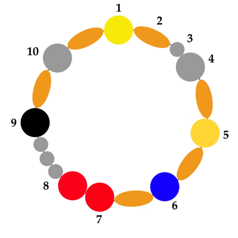 Pearls of Life